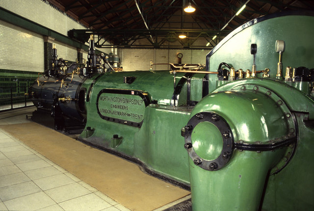 Littleton Pumping station. The survivor of four Worthington Simpson uniflow engines driving centrifugal pumps. The station is still at work with electric motor drive to three centrifugal pumps.